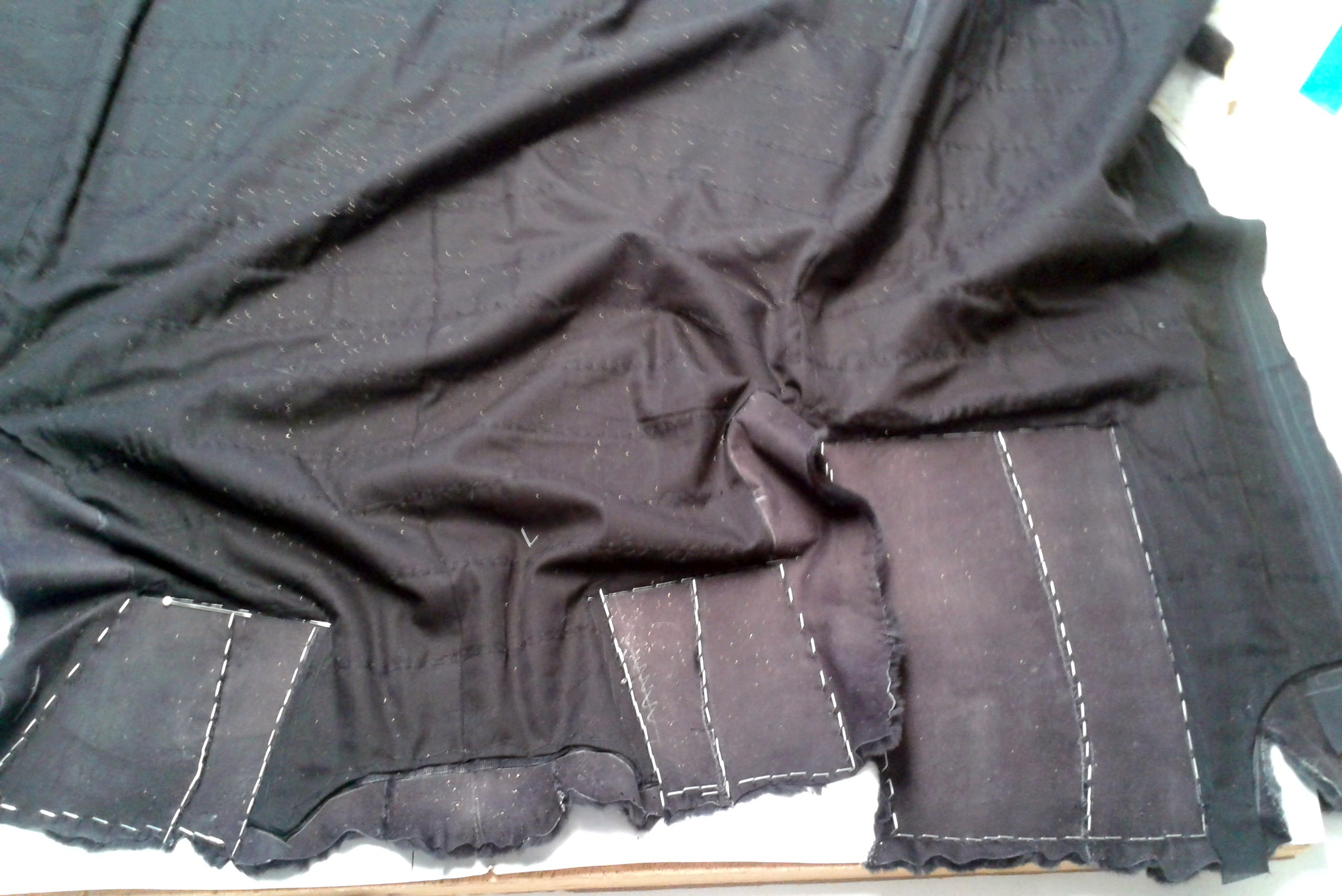 Umzwecken eines Samtwiesel-Pelzes. Aufgenommen bei Halfmann Manufaktur, Düsseldorf